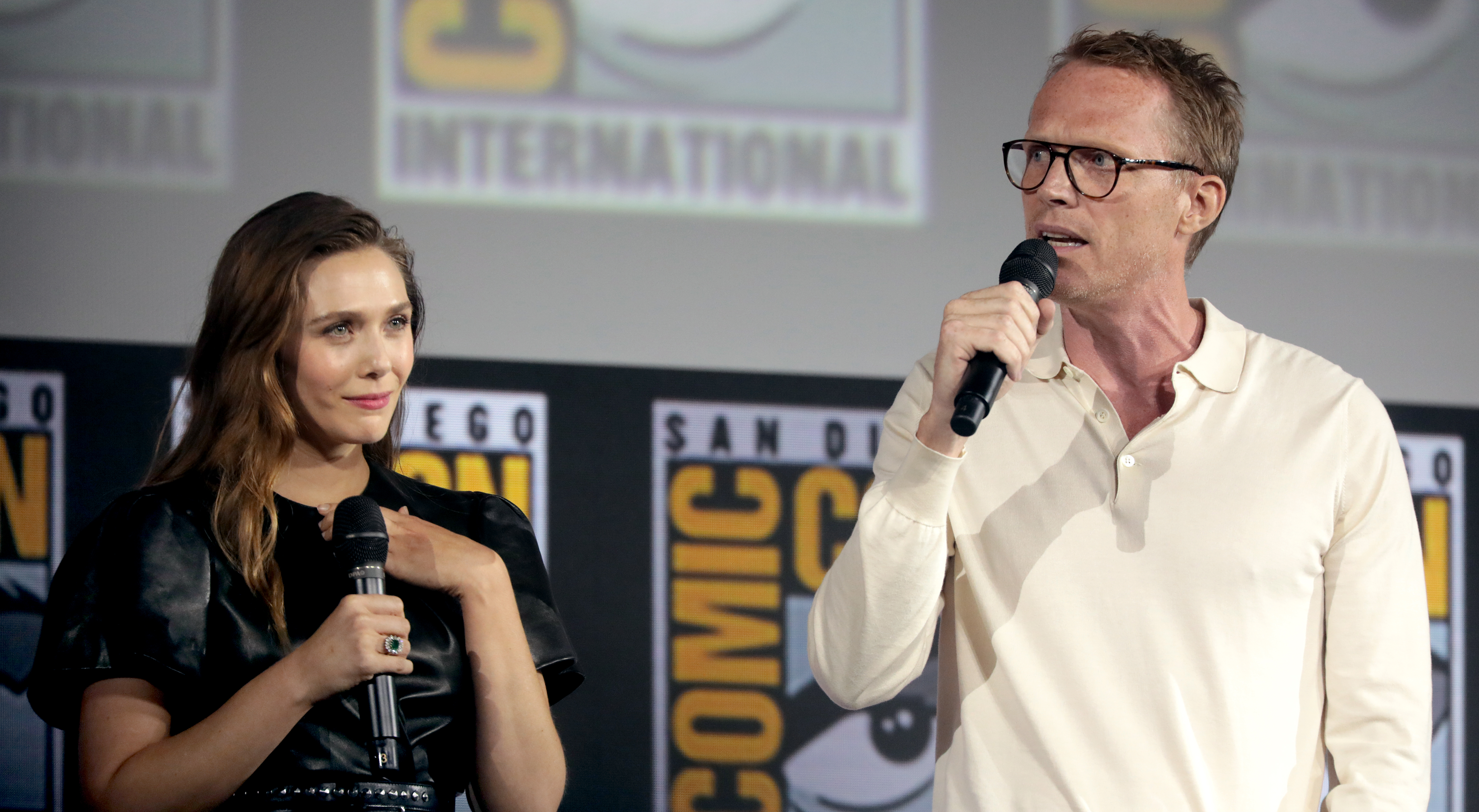 Elizabeth Olsen and Paul Bettany speaking at the 2019 San Diego Comic Con International, for "WandaVision", at the San Diego Convention Center in San Diego, California.